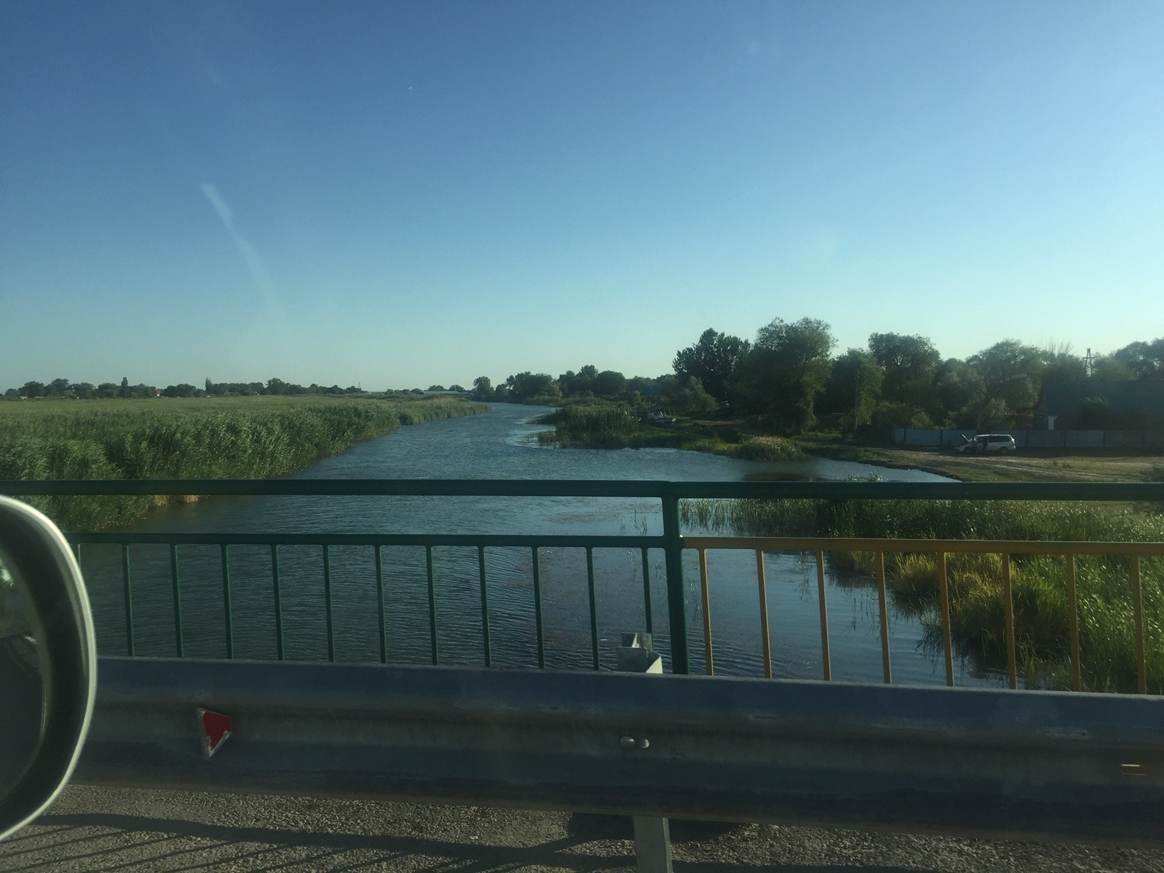 Ili river at Kuygan